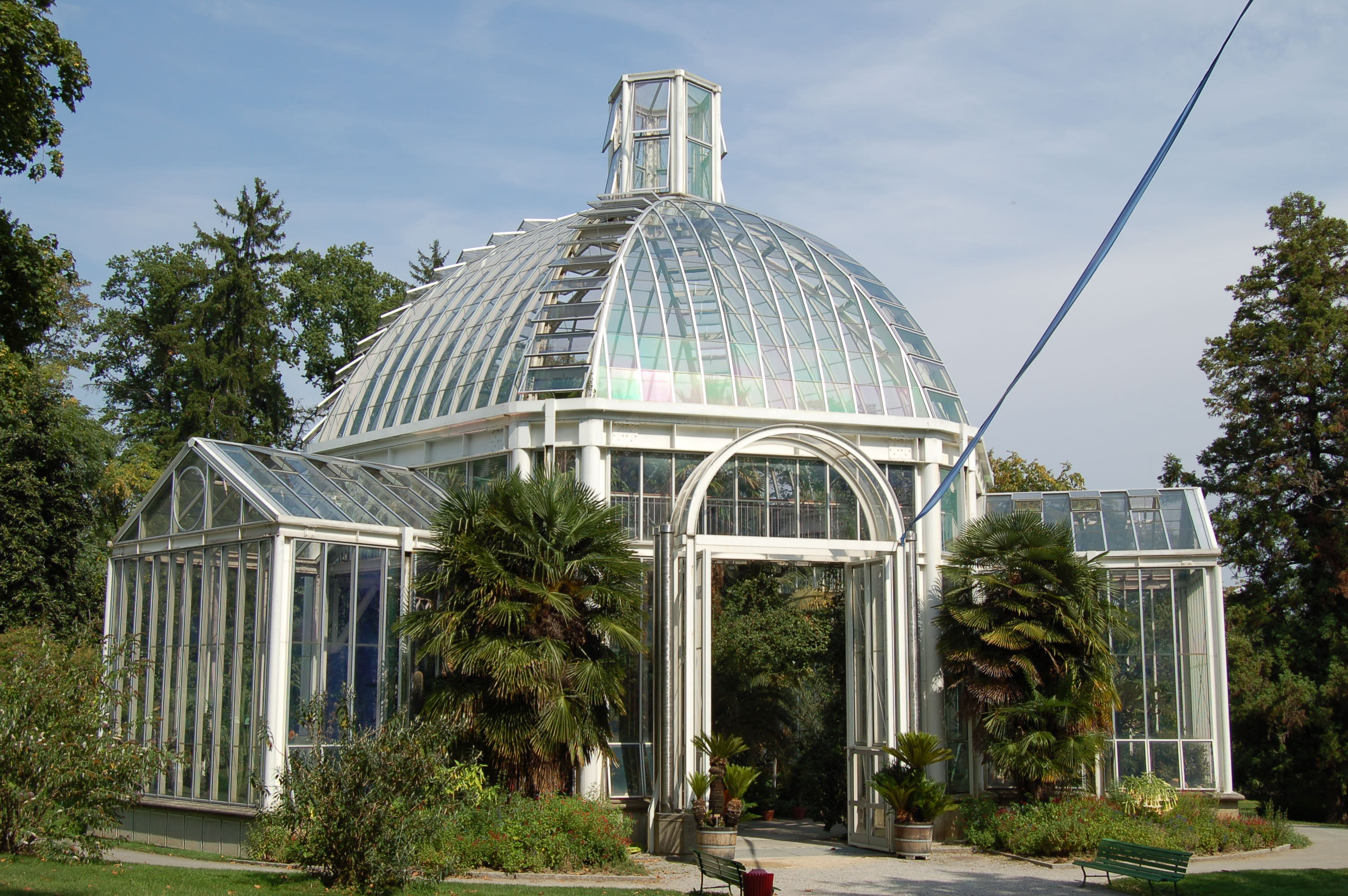 Geneva